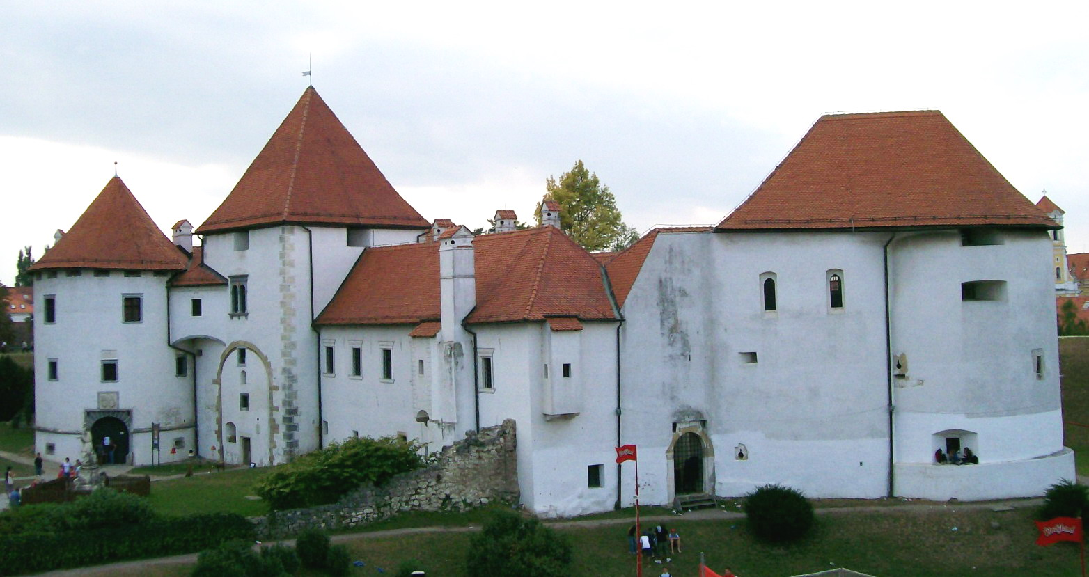 Old Town Varaždin, Croatia